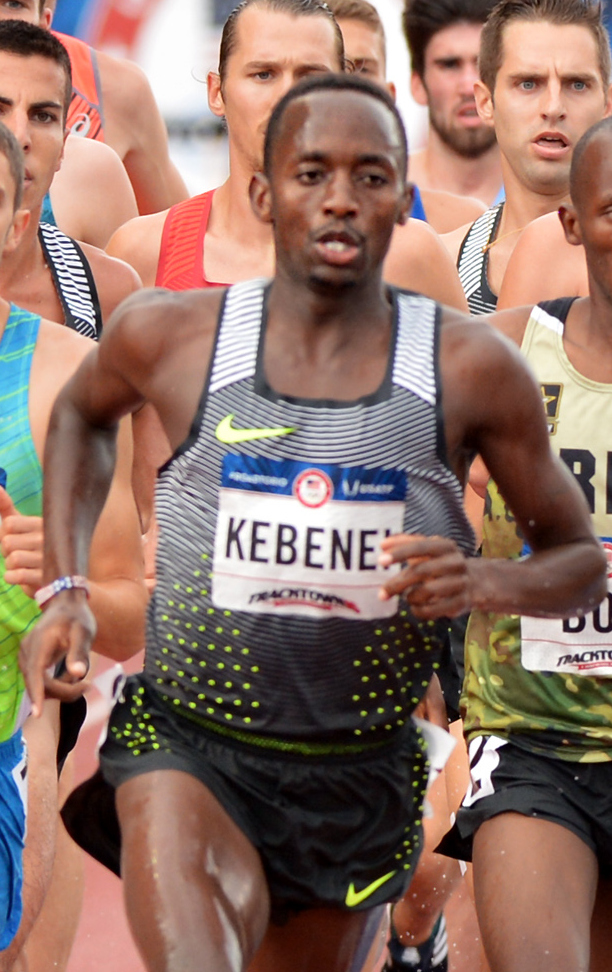 Stanley Kebenei running the 3,000-meter steeplechase at the 2016 U.S. Olympic Track and Field Team Trials at Hayward Field in Eugene, Oregon. U.S. Army photo by Tim Hipps, IMCOM Public Affairs